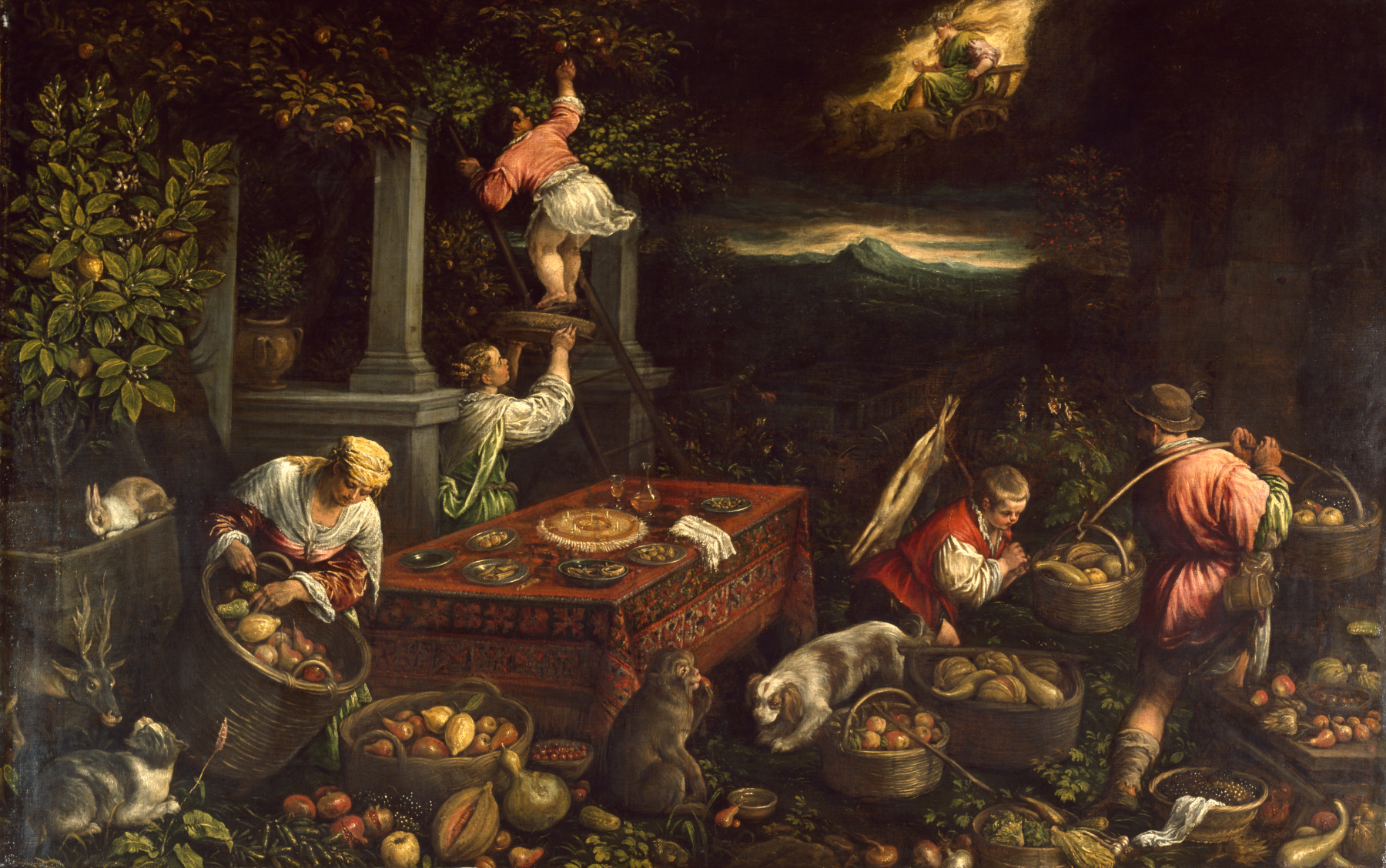 In the 16th century, the world was believed to consist of four elements: Earth, Air, Fire, and Water. Here, Earth (associated with the season of autumn) is symbolized by the abundance of nature's produce and by the small figure of Cybele, the ancient mother-goddess of earth and fertility, who rides across the sky in a chariot pulled by two lions. This painting is a replica (an exact second version or copy painted in the studio) by Leandro after a work by his father Jacopo (ca. 1510-1592), who had produced a series of four paintings dedicated to the elements for a princely patron. The skillful handling of the oil paint, the bold chiaroscuro (modeling in light and shade), and the emphasis on rich colors are characteristic of Venetian painting of the period. The Bassano painters were famous for filling their canvases with a wealth of natural details that were pleasing to the eye.